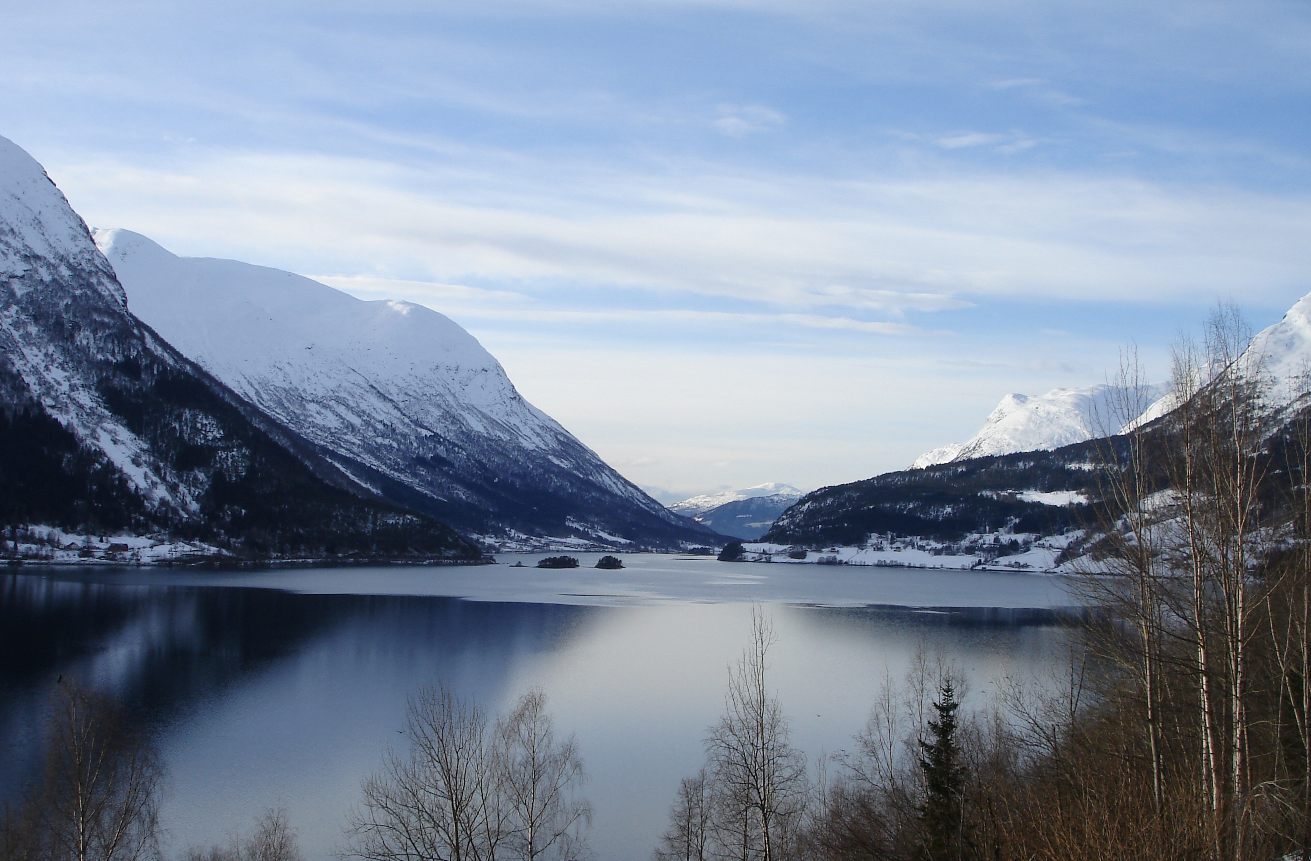 Norway